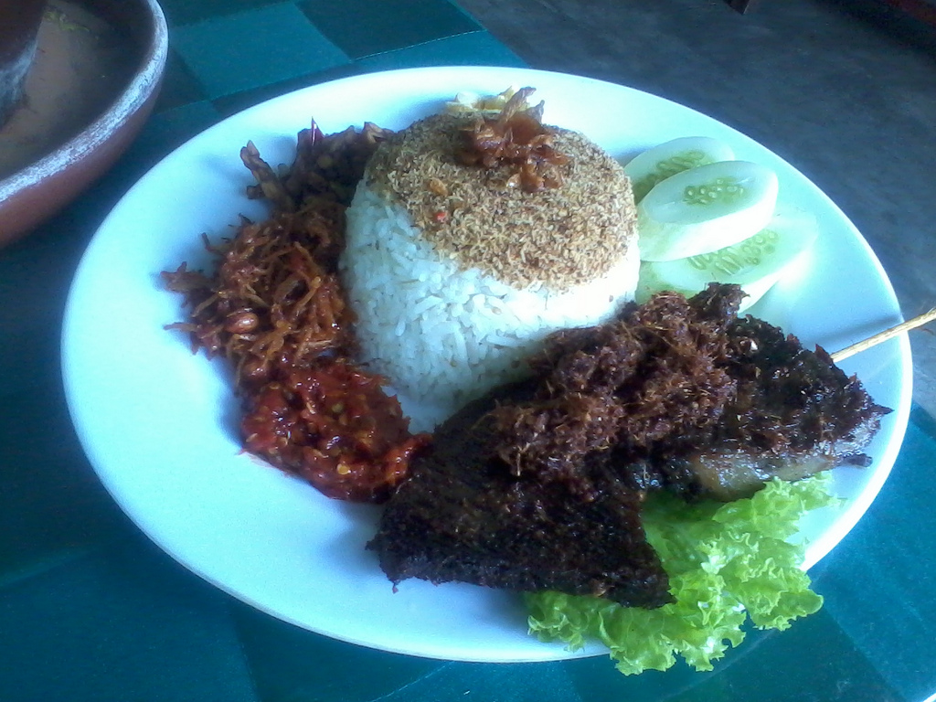 Nasi ulam